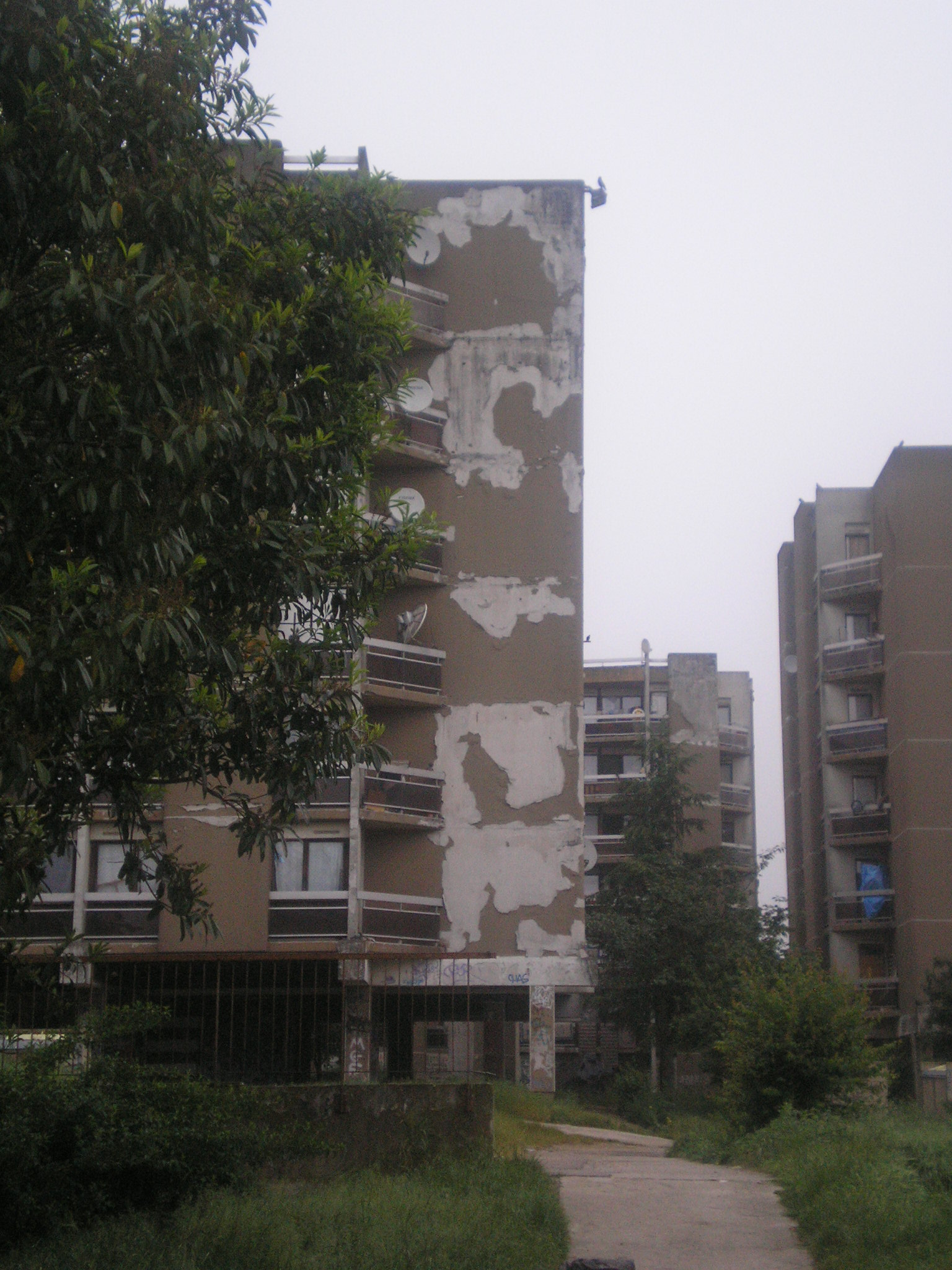 this photo shows the building's degradation. this is the most unhealthy neighboorhood (including the two cities of montfermeil and clichy sous bois) in the suburb of Paris